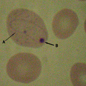 Cabot ring found in a peripheral blood smear